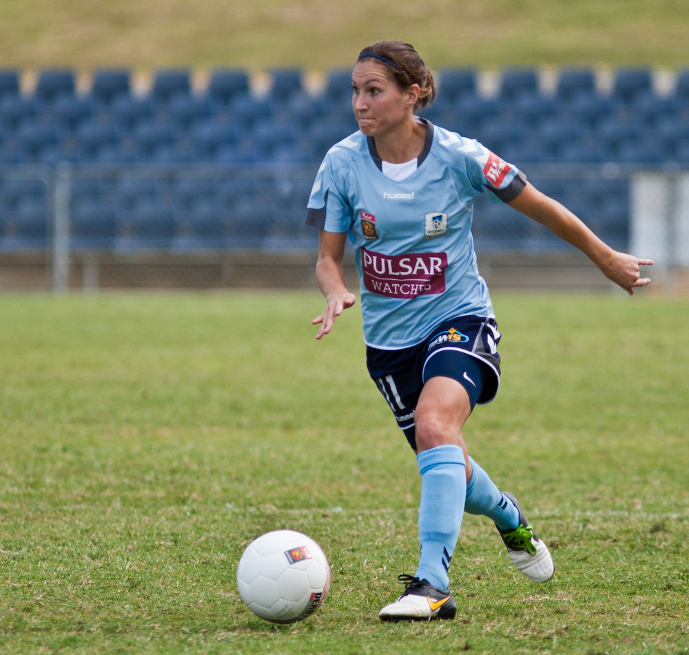 Lydia Vandenbergh playing for Sydney FC in the 2010-11 W-League.